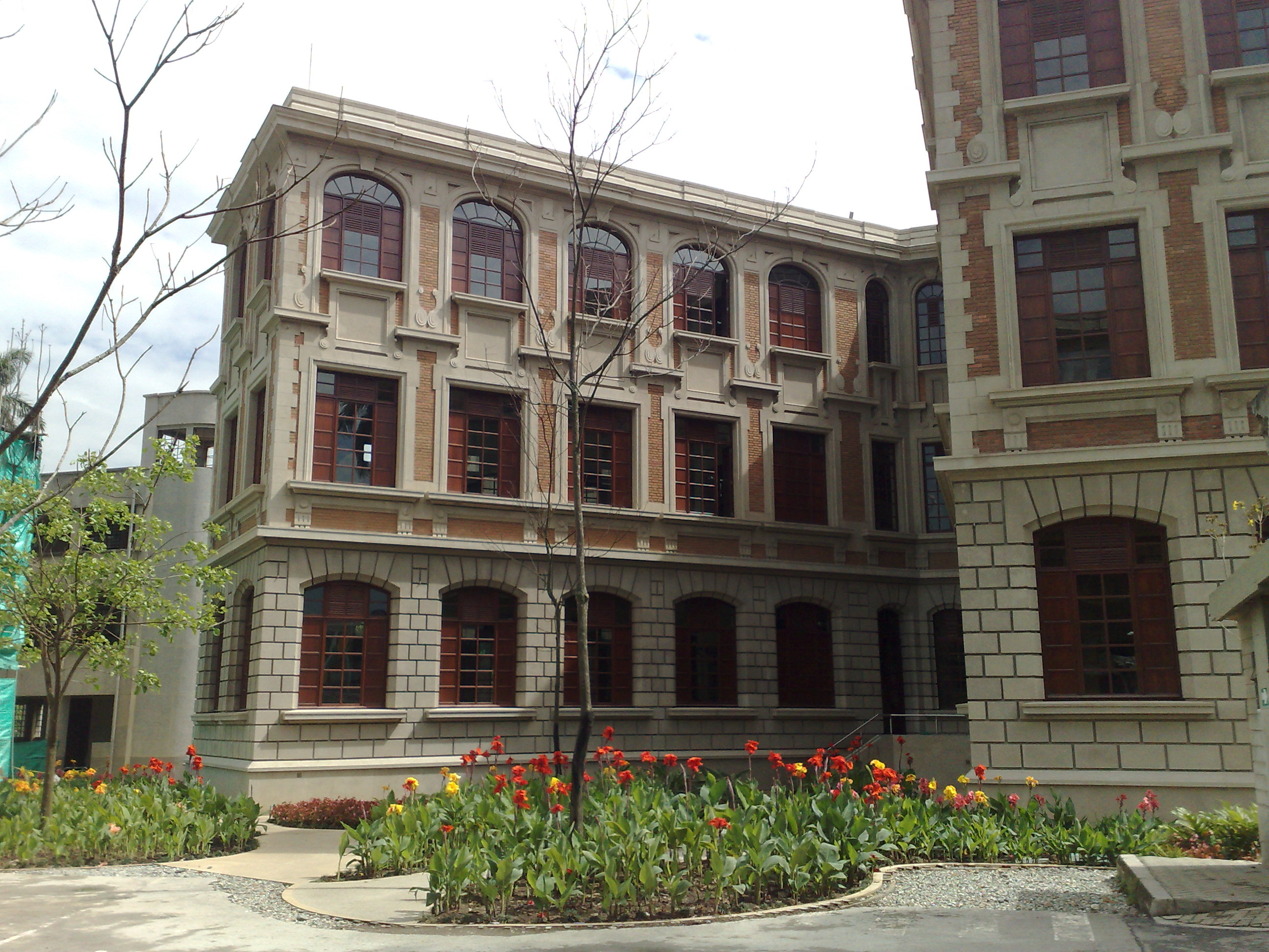 MEDICINE FACULTY AT THE UNIVERSIDAD DE ANTIOQUIA (UNIVERSITY OF ANTIOQUIA)